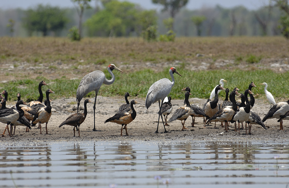 Some birds in NT Australia